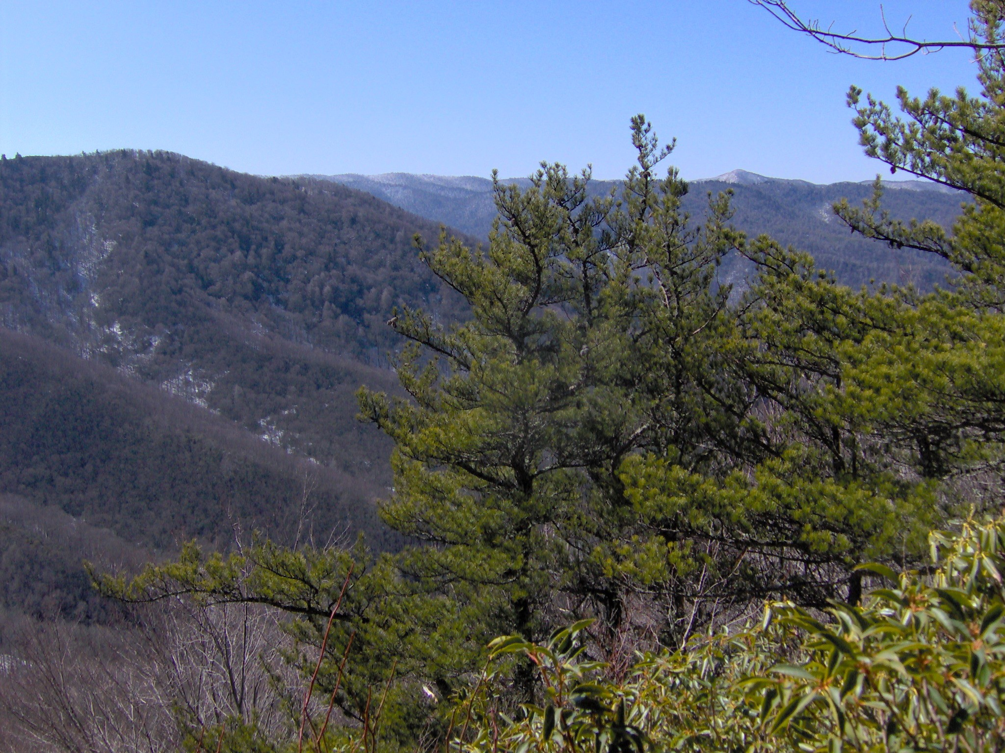 Looking out over the Rough Creek Valley from a break in the foliage, appx. 8 miles from the trailhead at Fighting Creek Gap. Sweet Ridge is on the left, and Miry Ridge and main crest of the Smokies are in the distance. The snow-capped summit of Silers Bald is in the distance on the right. Trees are Pinus pungens. Author Horace Kephart termed this area "Godforsaken" due to its remoteness.